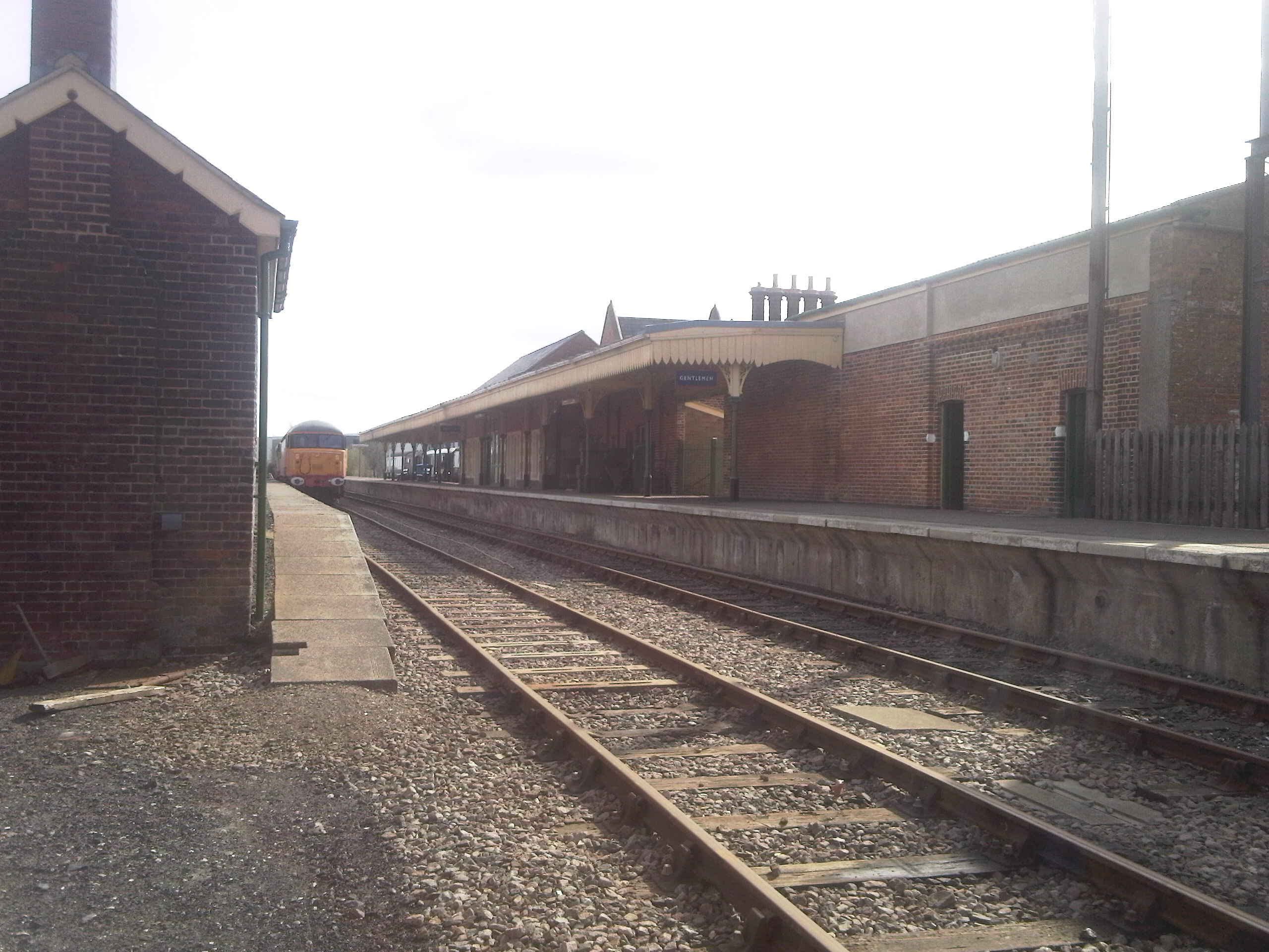 Dereham station - main building and canopy